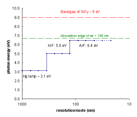 This plot shows the photon energy used in lithography vs. the node or resolution requirement. The photon energy increases as the wavelength is reduced, but absorption limits imposed by air have made light sources for wavelengths shorter than 193 nm difficult to work with.